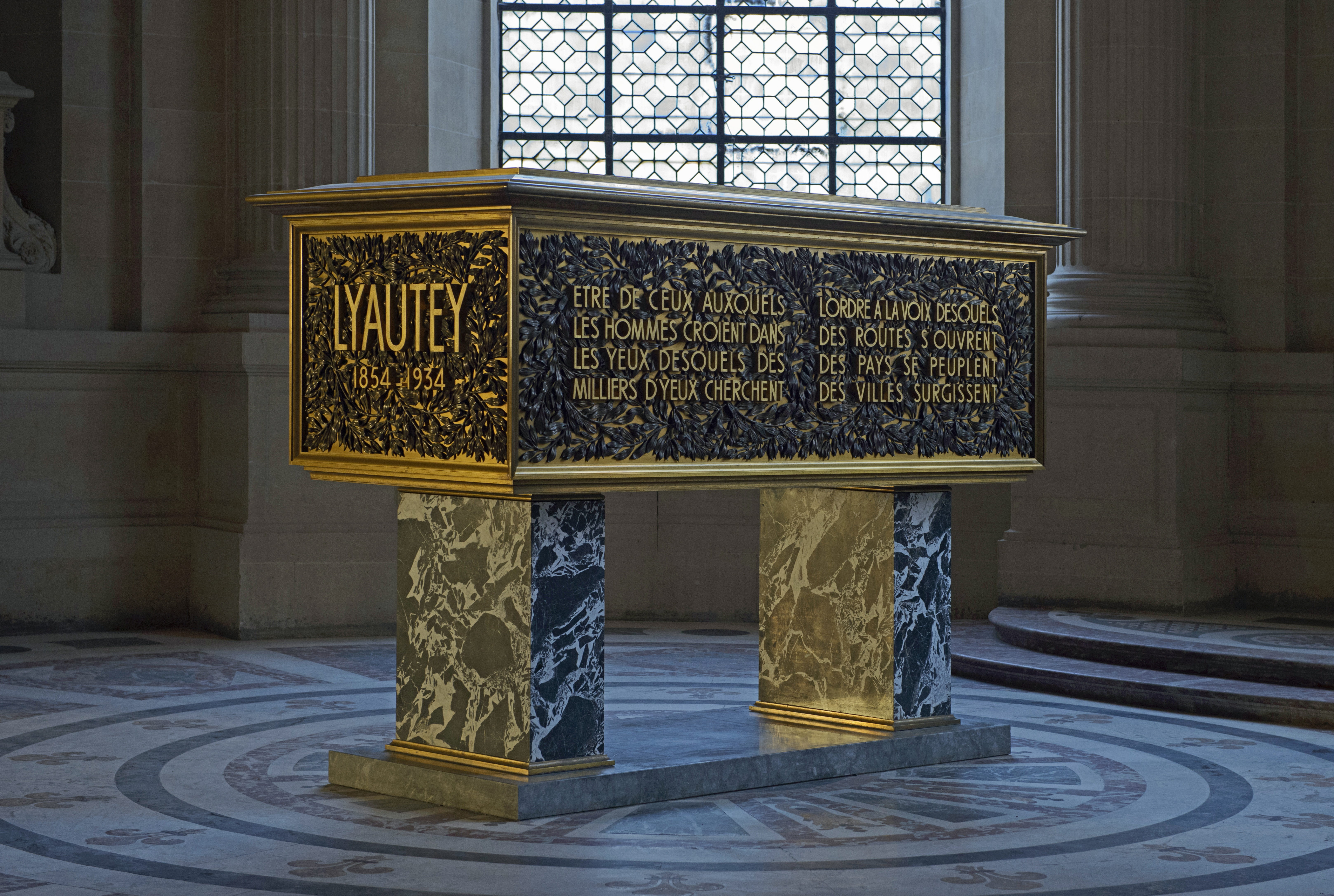 Tomb of Lyautey in the Invalides.